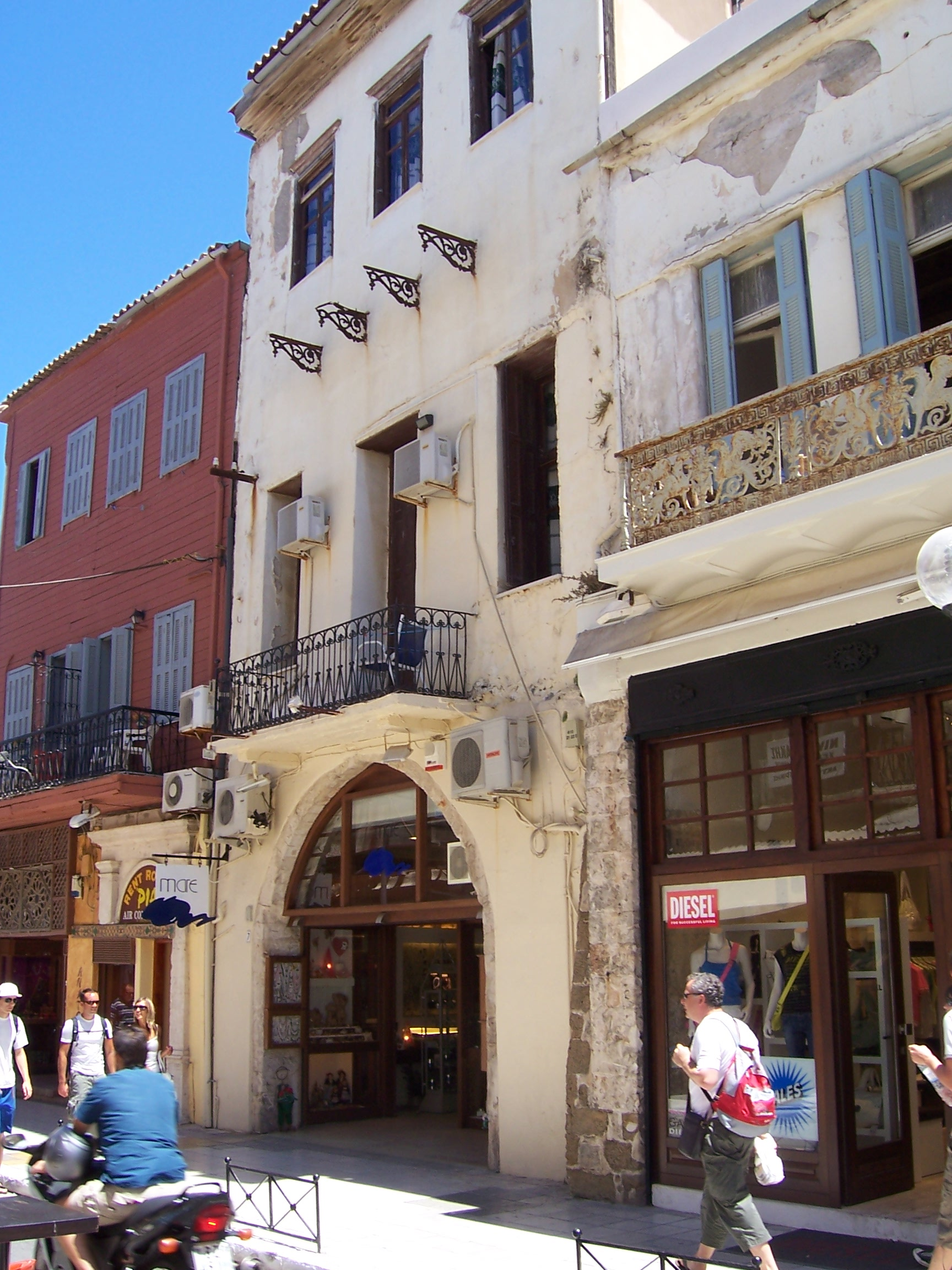 Eleftherios Venizelos father's shop, Chania, Crete (7 halidon street)